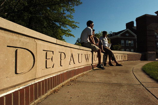 DePauw University signage